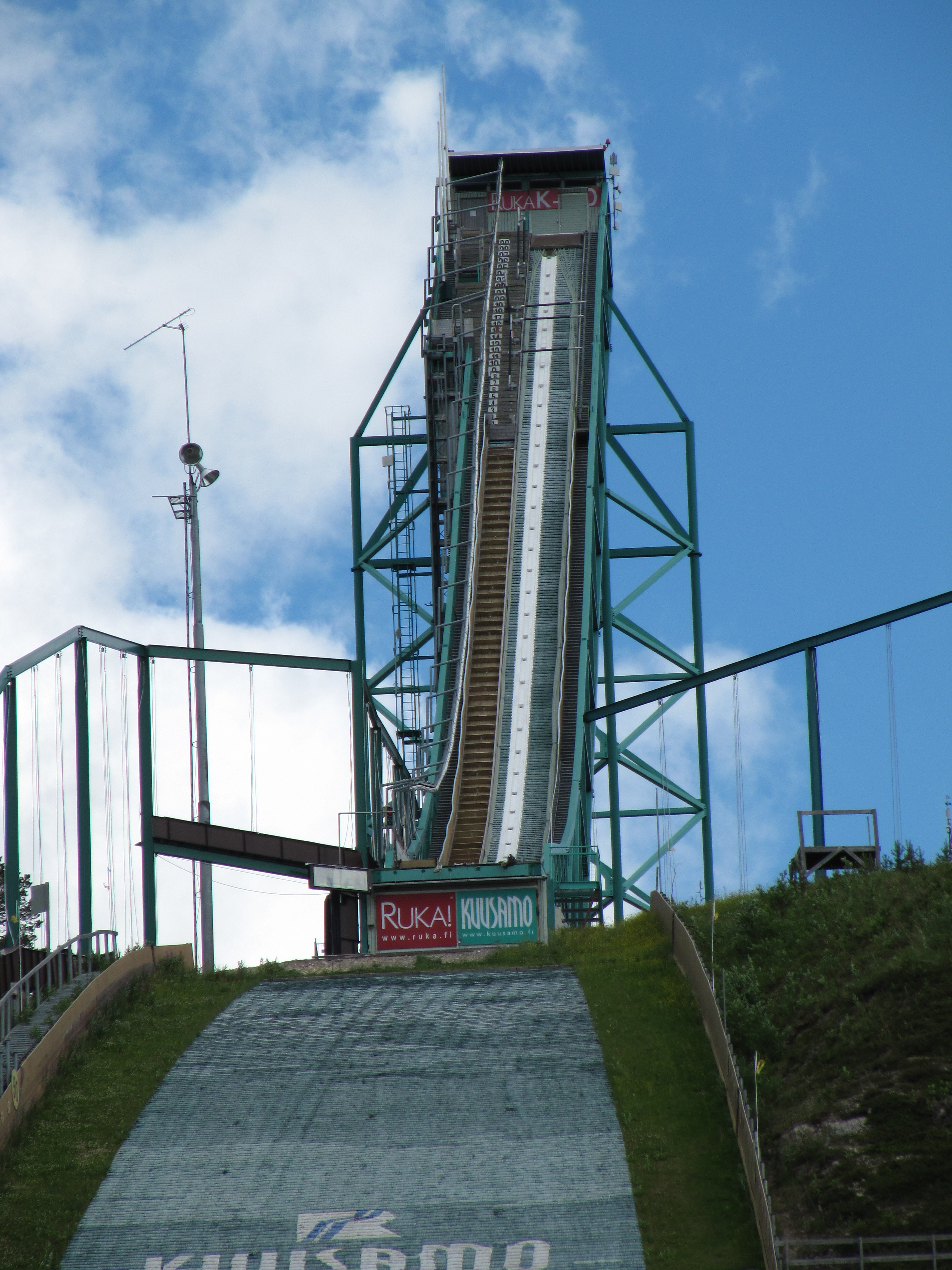 This is the large ski jump in Ruka, Kuusamo, Lapland where a leg of teh ski jumping world championships is help every winter in Dec.